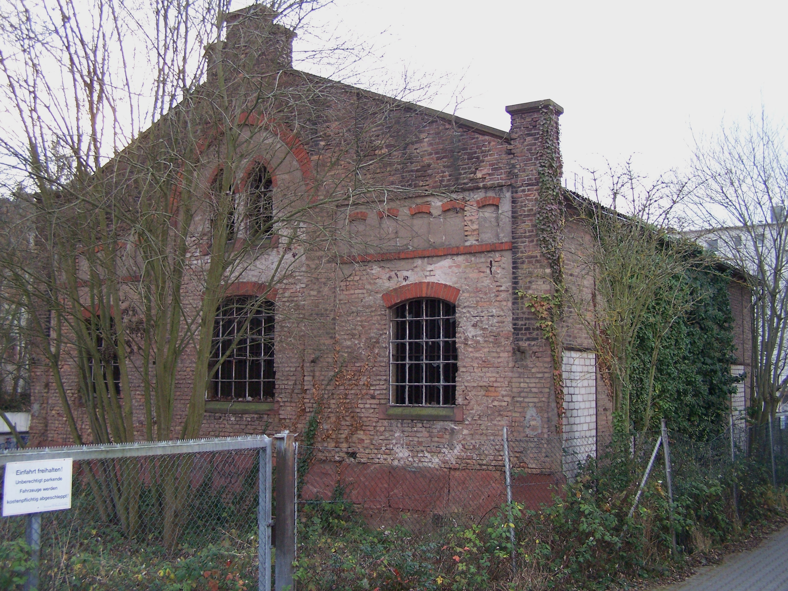 Backside of the former tram depot in Frankfurt-Eschersheim